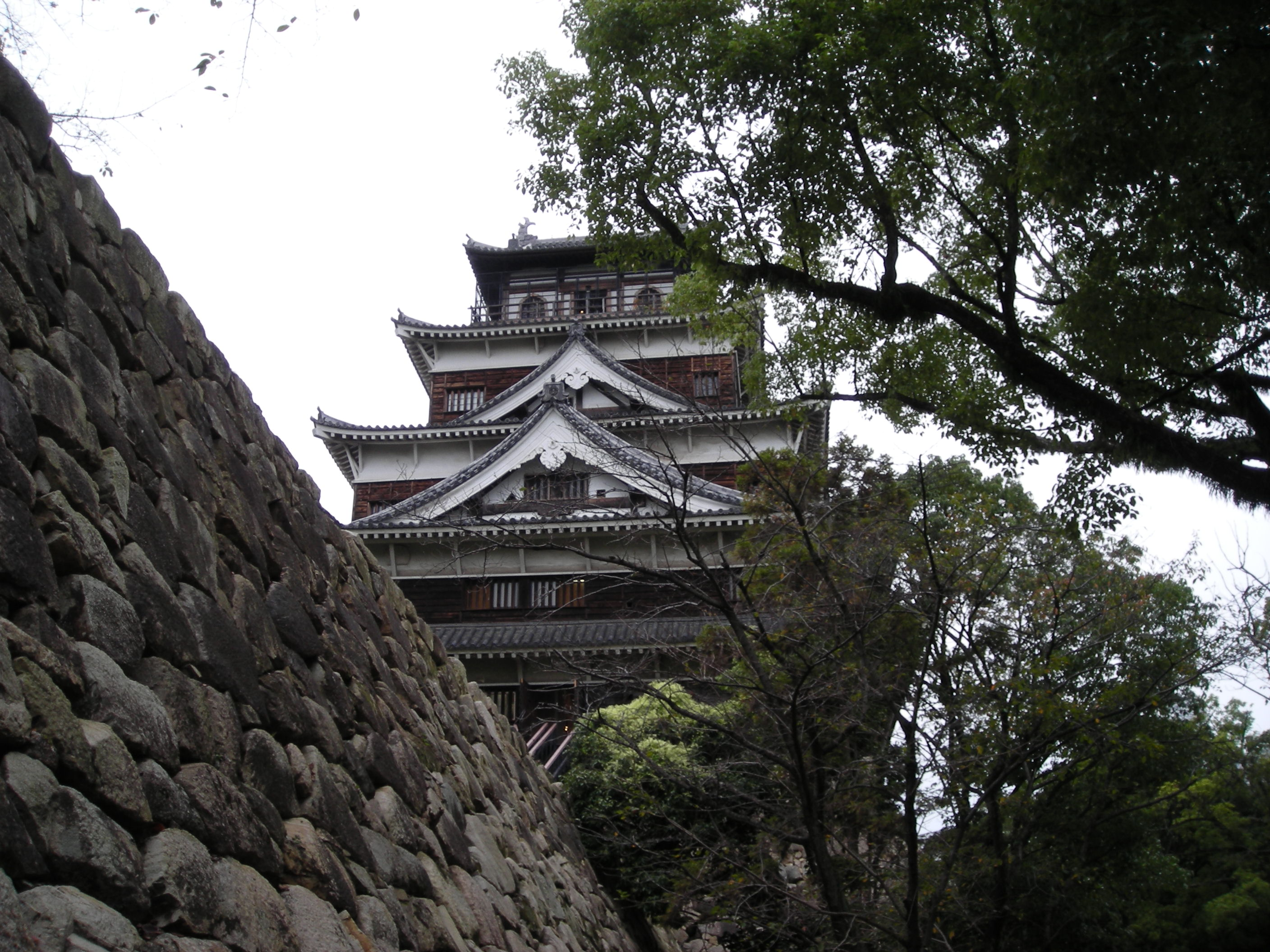 Hiroshima Castle, Hiroshima, Japan.